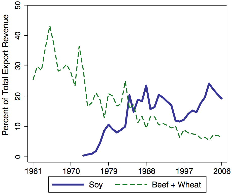 Percent of total exports revenue, Argentina 1961-2006